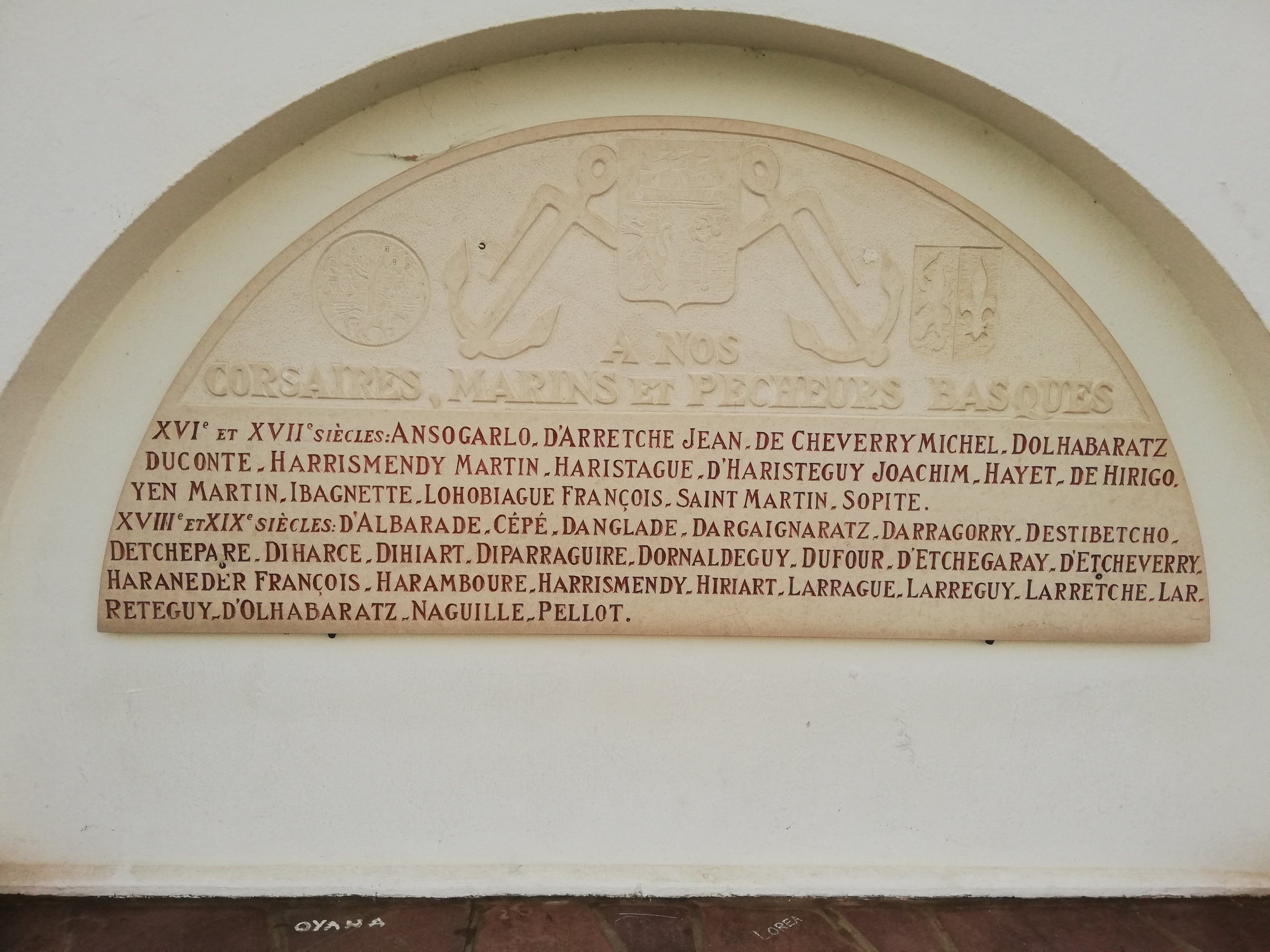 Reminder dedicated to the Basque privateers in San Juan de Luz.